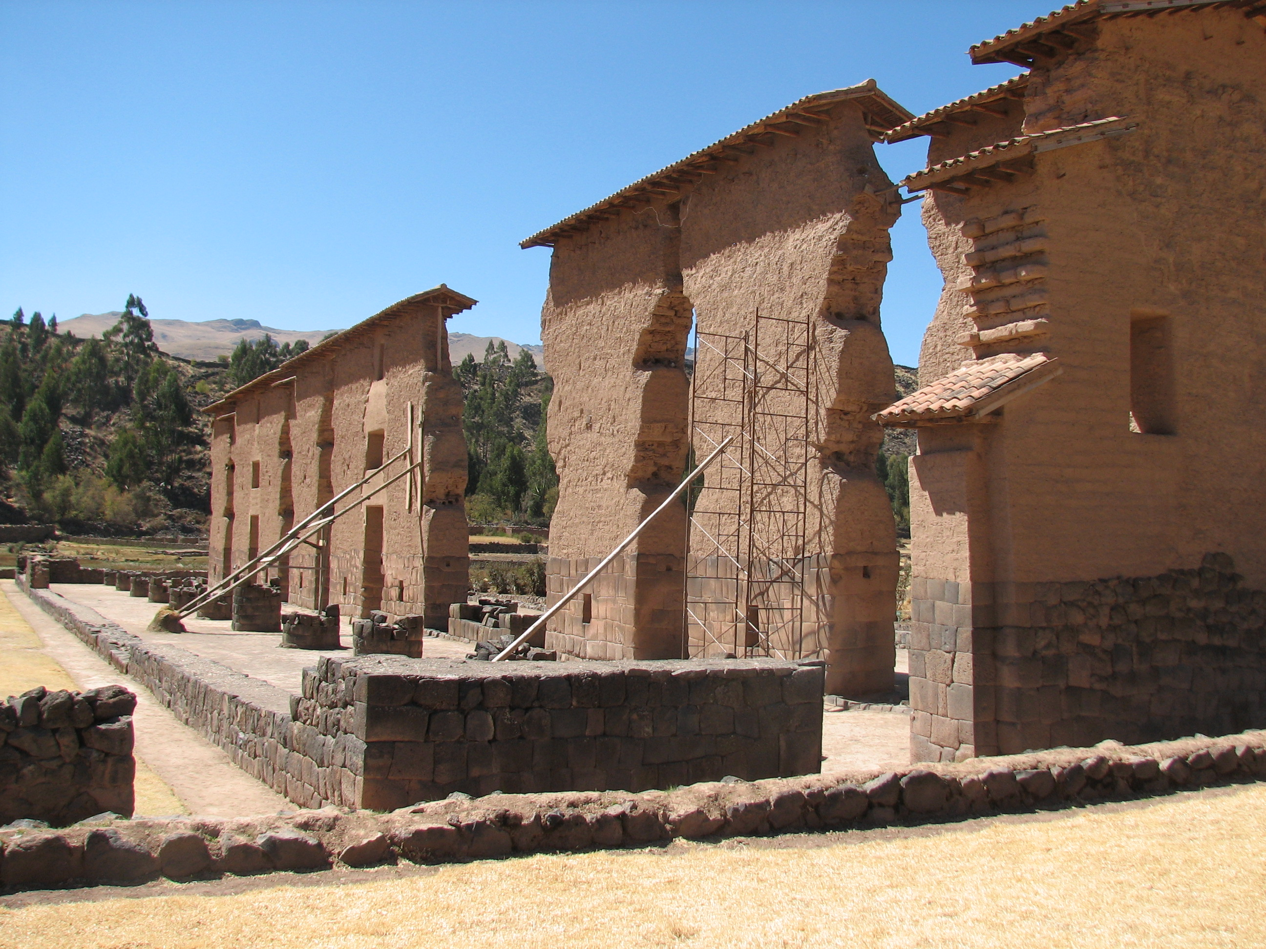 Raqchi archaeological site in Peru